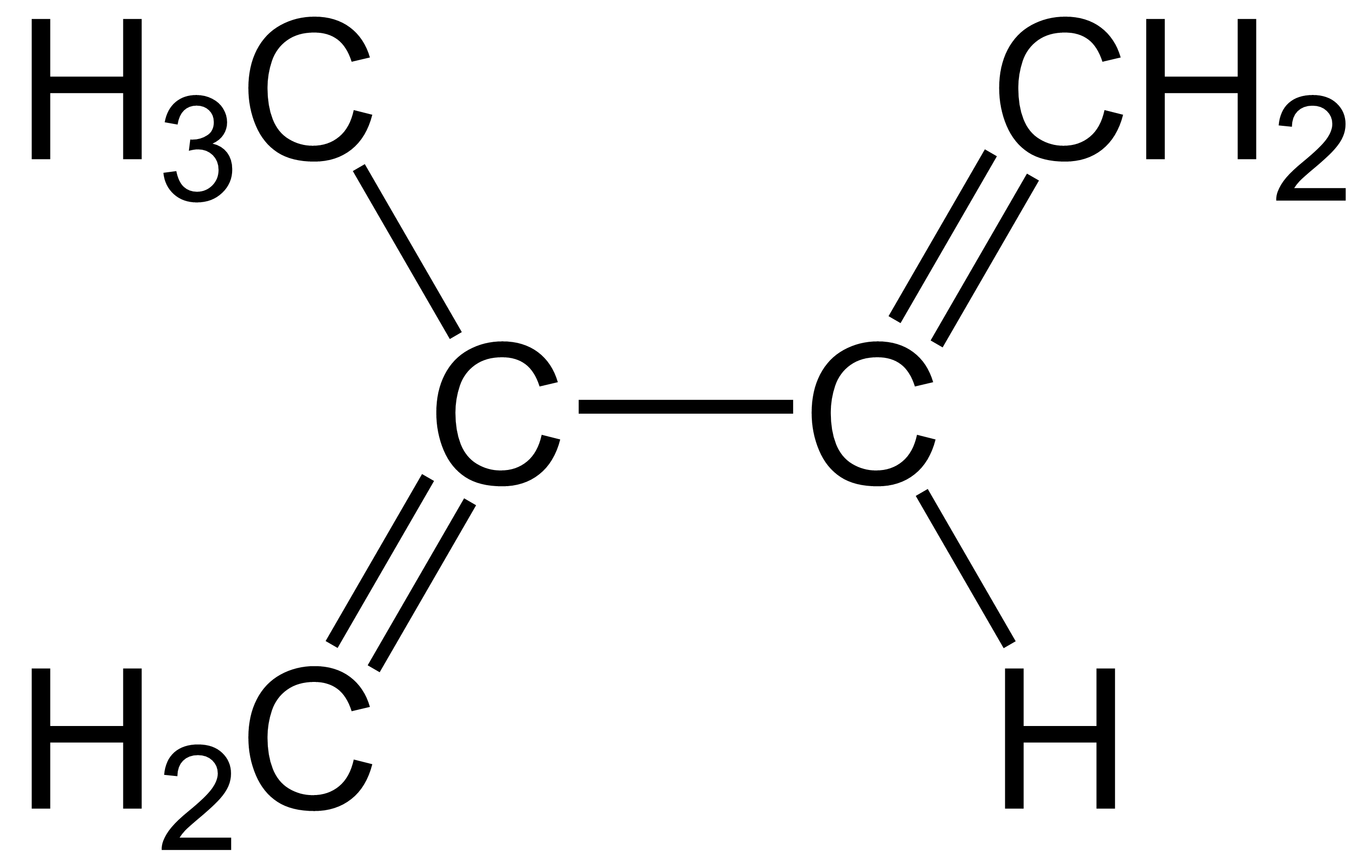 Structure of isoprene molecule